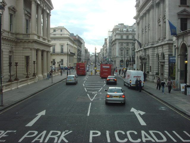 A4 Pall Mall